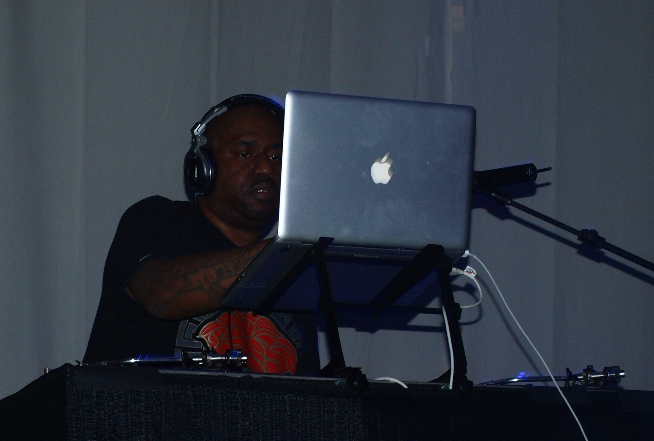 DJ Homicide on June 5, 2009 performing with Sugar Ray in Reno, NV.